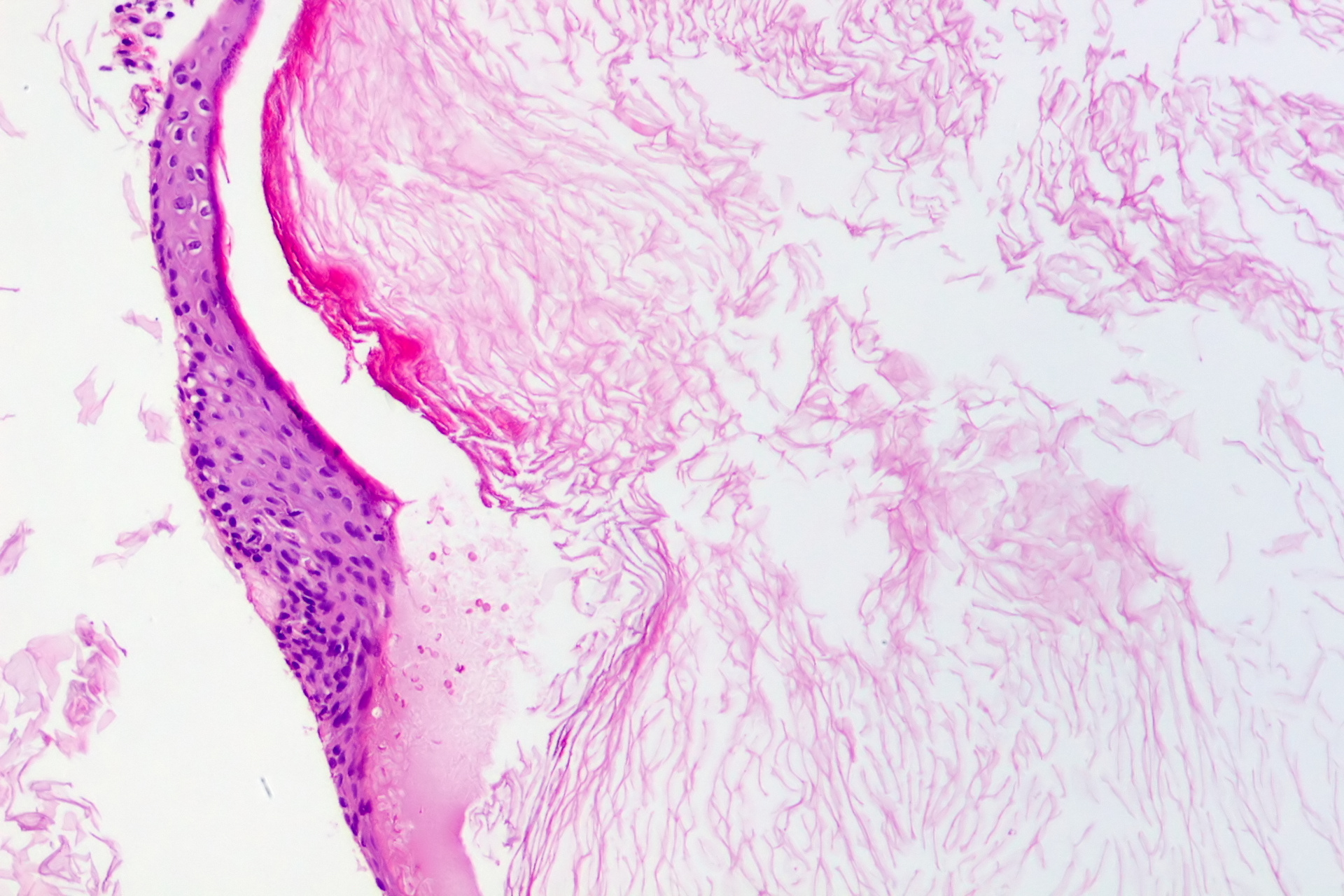 Cholesteatoma